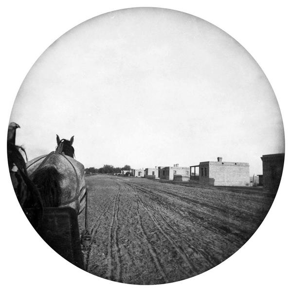 Чиназ